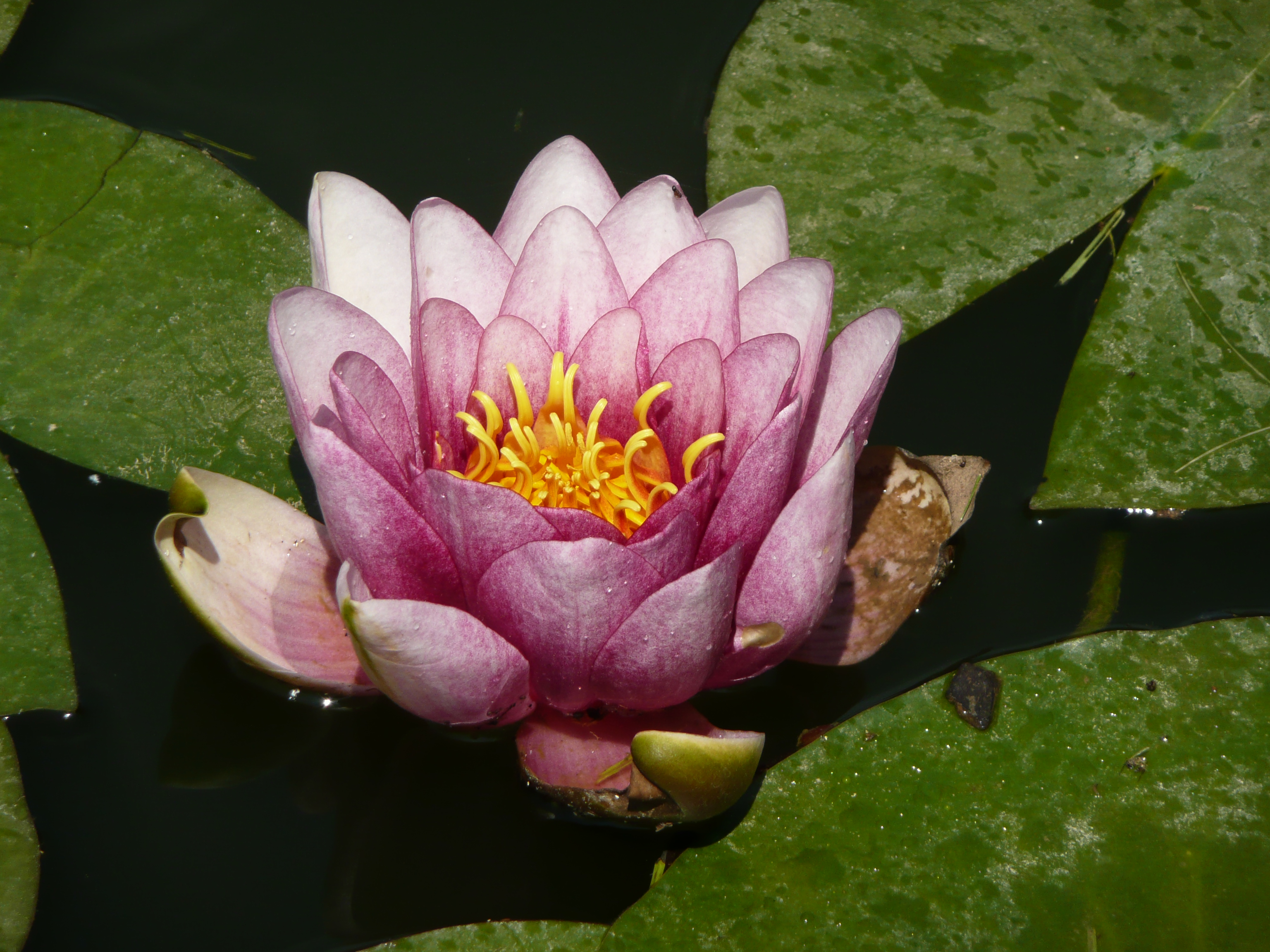 Photographs from TEMA, Nezahat Gökyiğit Park, Istanbul Location encoded in EXIF